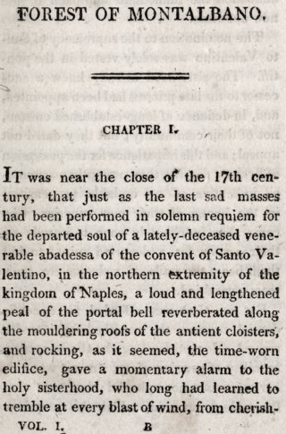 First page of Catherine Cuthbertson's novel "Forest of Montalbano"